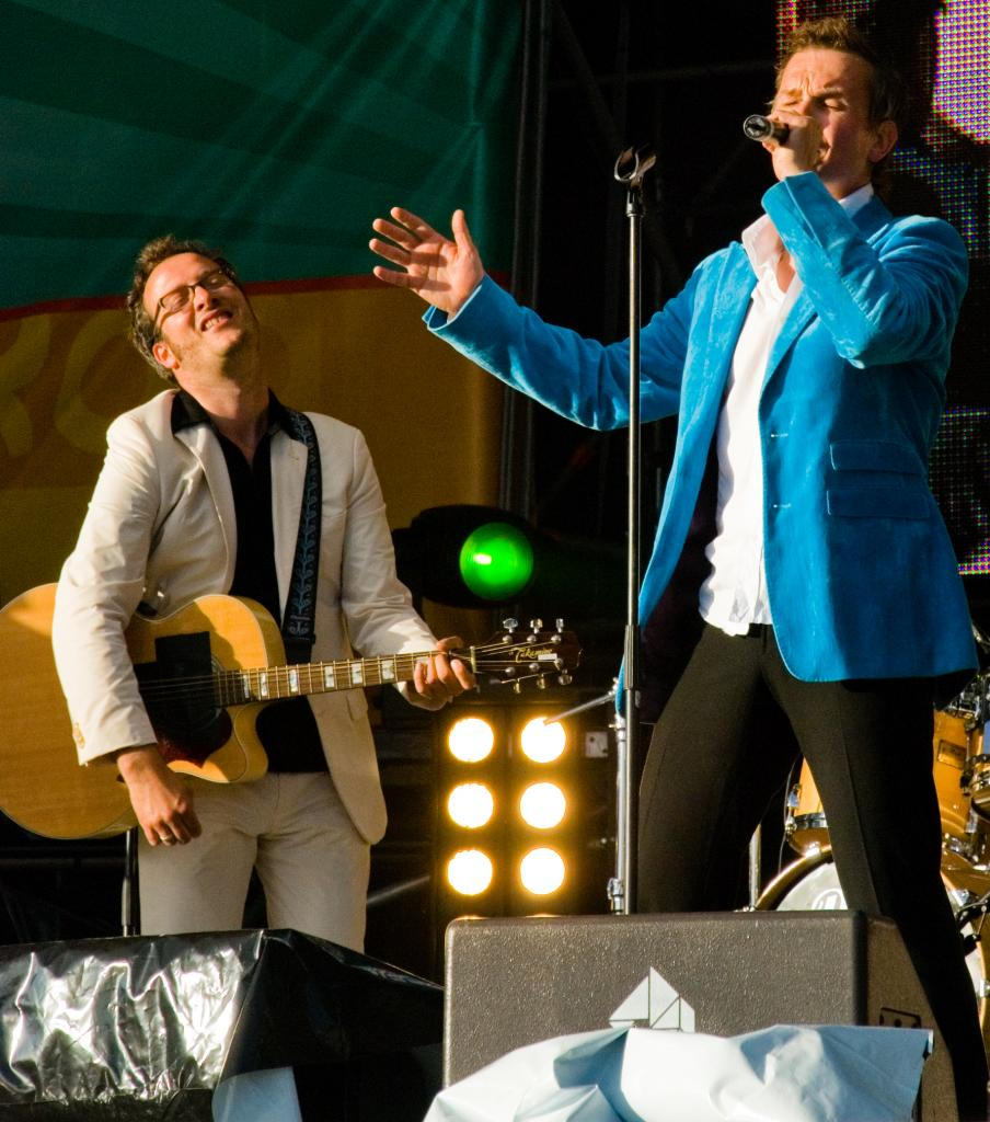 hermes house band